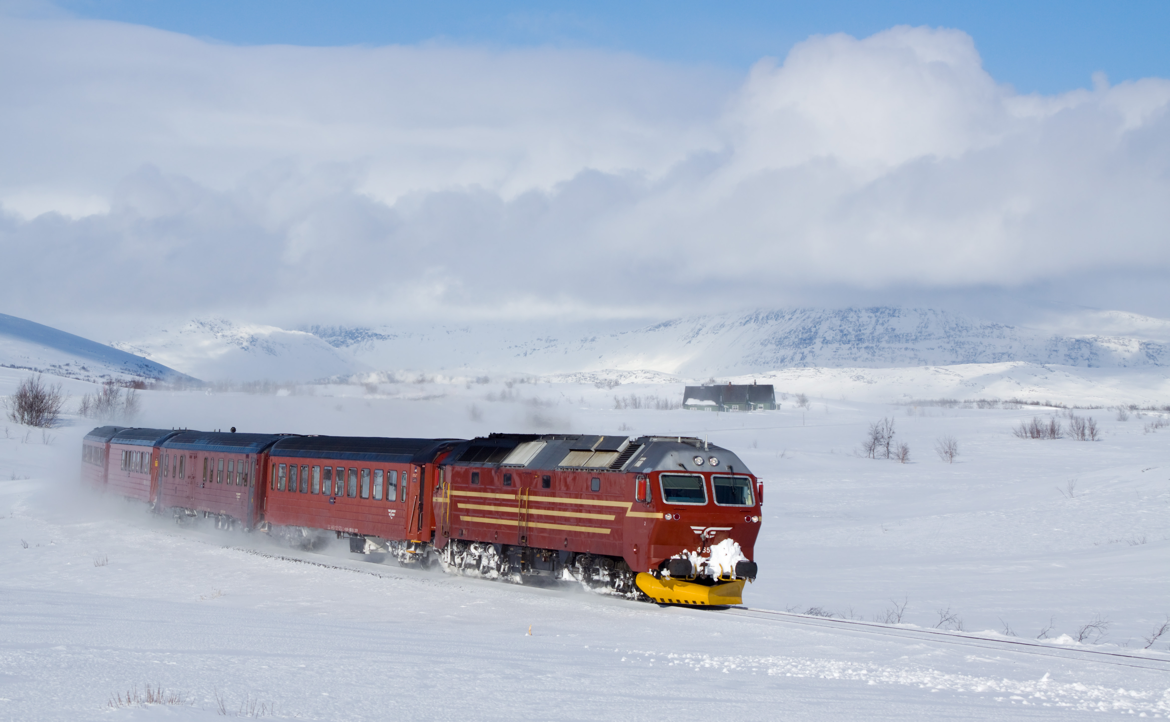 Norges Statsbaner Di 4 with the daytime train from Bodø to Trondheim (Nordlandsbanen), passing the Saltfjellet between Lønsdal and Bolna.